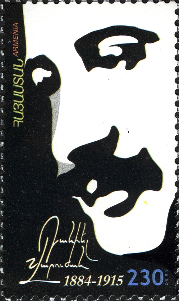 125th Anniversary of birth of Daniel Varuzhan